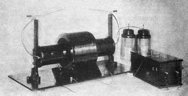 A Tesla coil, a resonant transformer circuit invented by Nikola Tesla that generates very high voltage, radio frequency alternating current electricity at low current levels. This example is an educational kit for use in classroom demonstrations. It probably produces on the order of 100 kV at frequency of around several hundred kilohertz. It consists of a step-up transformer (right) which produces several thousand volts, a pair of Leyden jar capacitors (center) a spark gap (not visible) and the resonant "oscillation transformer", (left). The high voltage is produced between the ends of the coil and jumps across the gap between the wires above the coil.